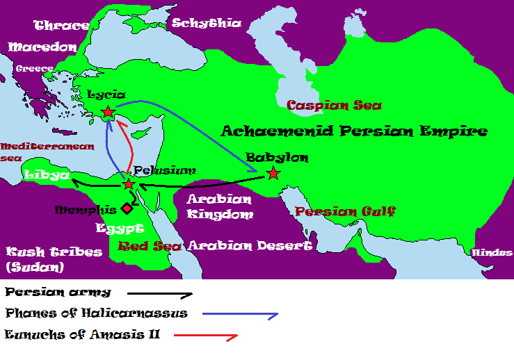 A map created basd on descriptoin of Herodotus and the historical state limits.